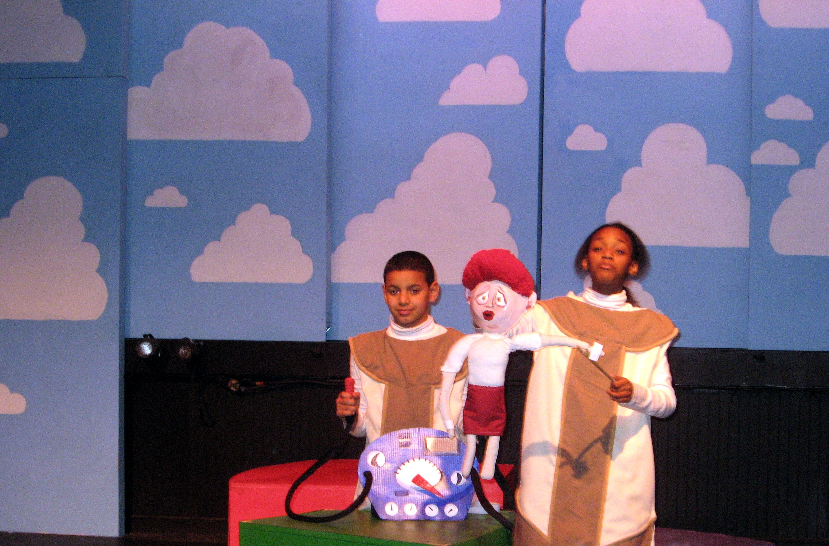 A Very Merry Unauthorized Children's Scientology Pageant, scene where characters show the play's explanation of the E-meter device, and Auditing, through use of puppets.